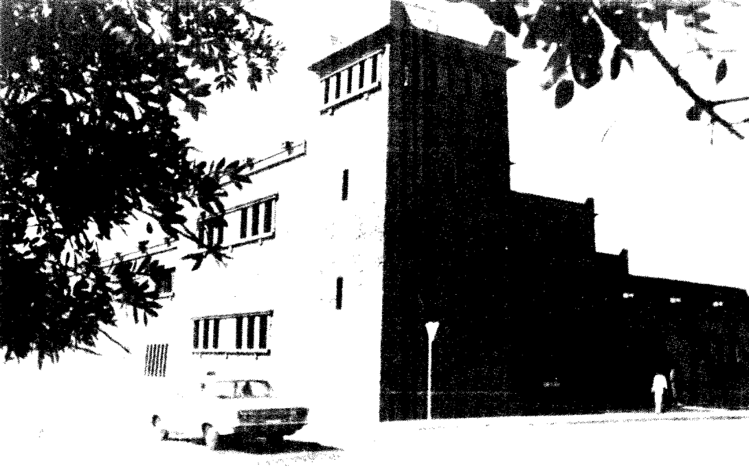 Building of the Yemaa (General Assembly of Spanish Sahara) in Laayoune